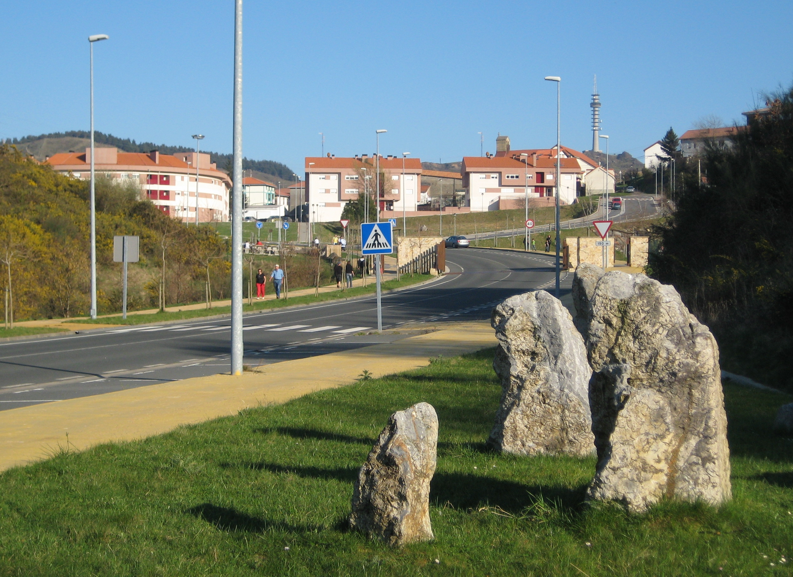 La Arboleda / Zugastieta, Trapaga, Biscay.